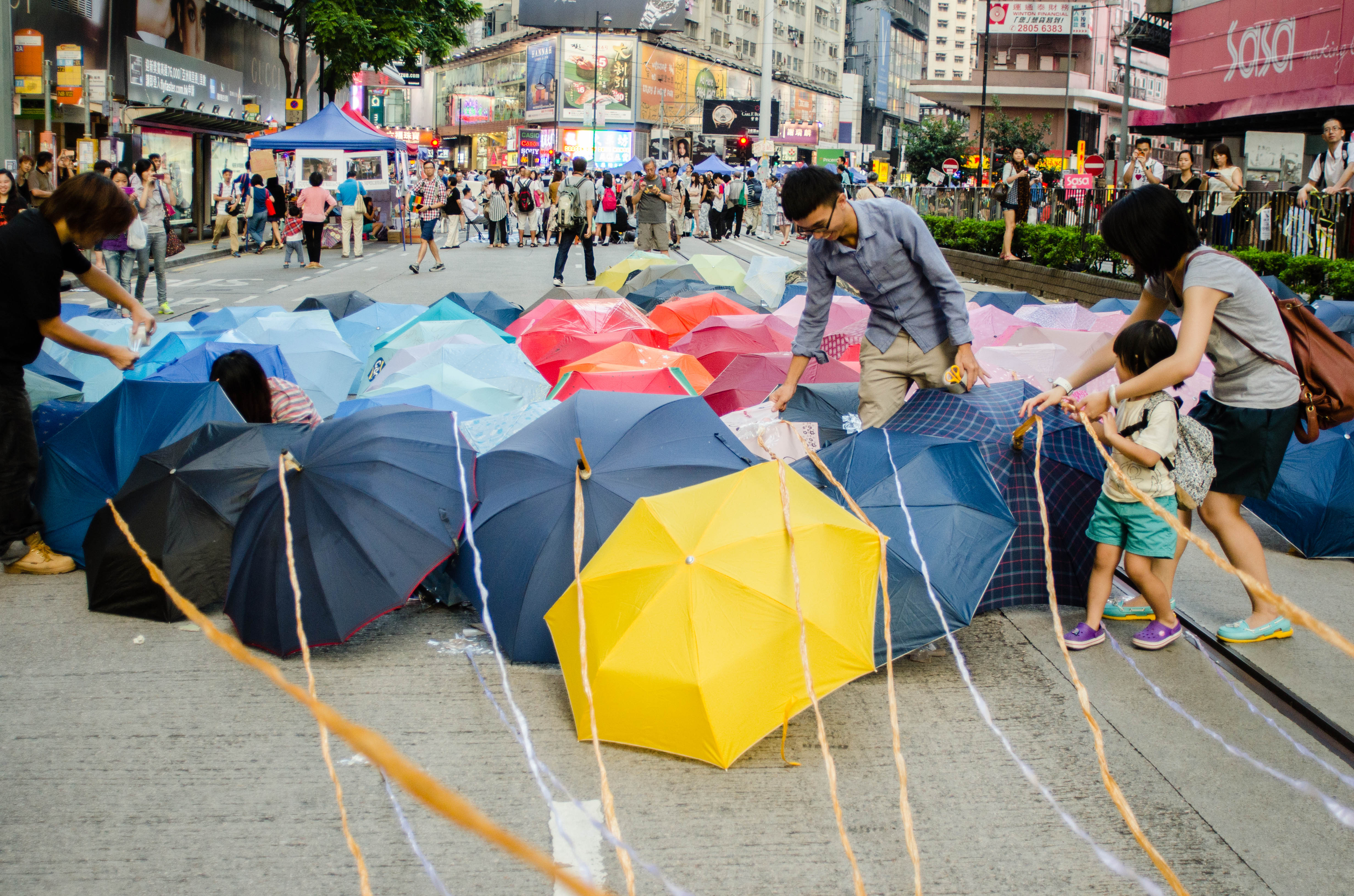 Umbrella Revolution Umbrella in Causeway Bay